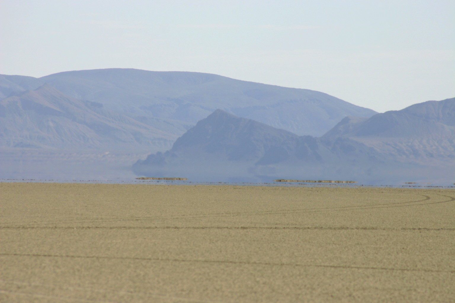 Black Rock Point with inferior mirage at Nevada's Black Rock Desert. After posting this on Wikimedia Commons (and Wikipedia where it was noticed), the following remarks from mirage specialist Andy Young were forwarded to me: "You can see that the angular height of the fold line is considerably higher for the mountains in the background than the little strips of miraged grass -- just a few narrow patches -- closer to the camera. Apparently the field is not quite flat, so there are patches a little higher than the rest that stick up above the "vanishing line" (really, a surface that gradually slopes up away from the observer). There are even a few closer patches that present even thinner mirage images just at the fold line. Also the height of the grass is so close to the height of the fold that the mirages in the grass are restricted to a very thin strip just at the fold line; the rest of the inverted image is truncated by the tall grass. Thanks for turning this example up. I probably should make a link to it from somewhere in my mirage discussions."